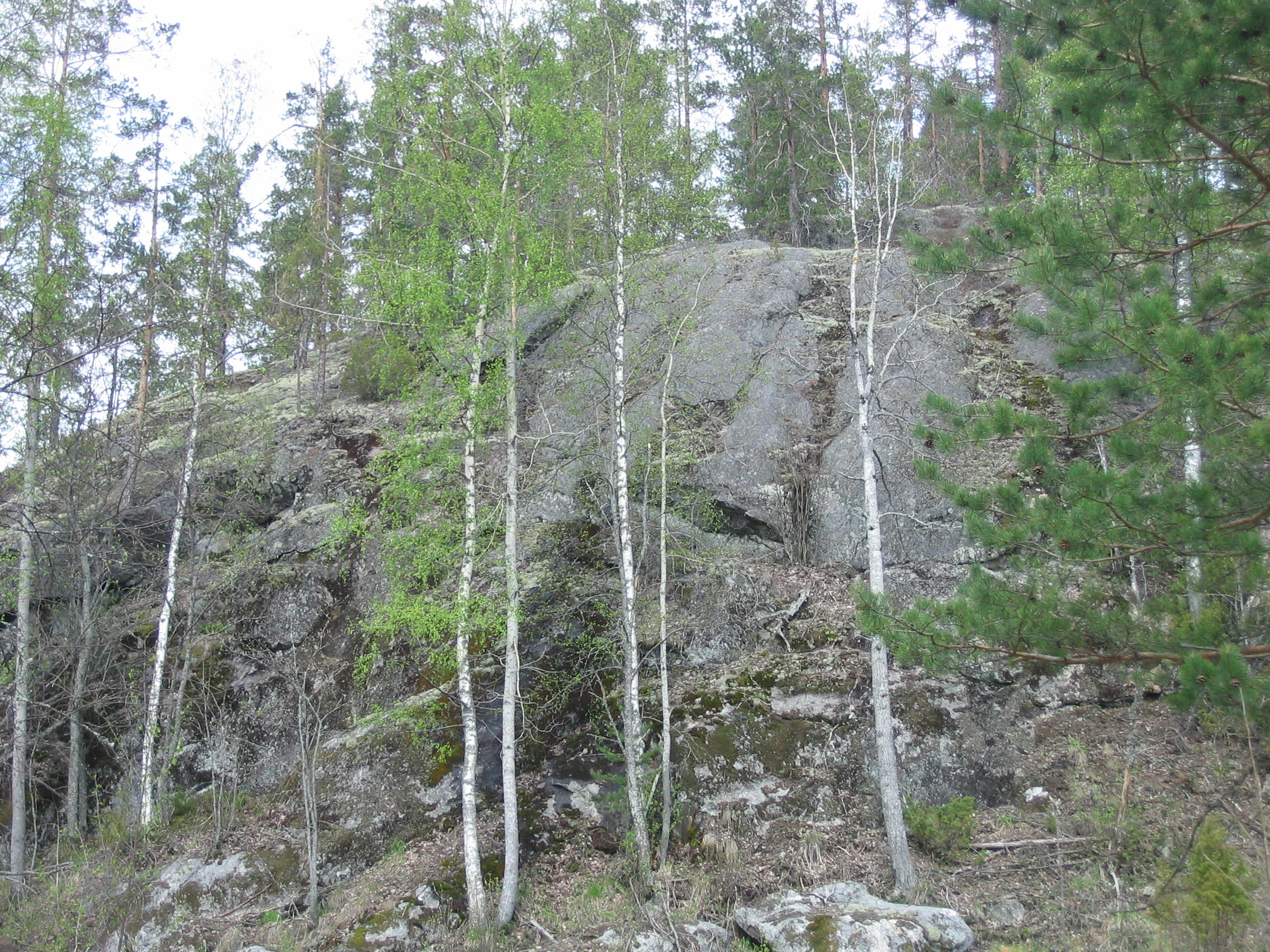 Paljakanvuori in Parikkala, Finland